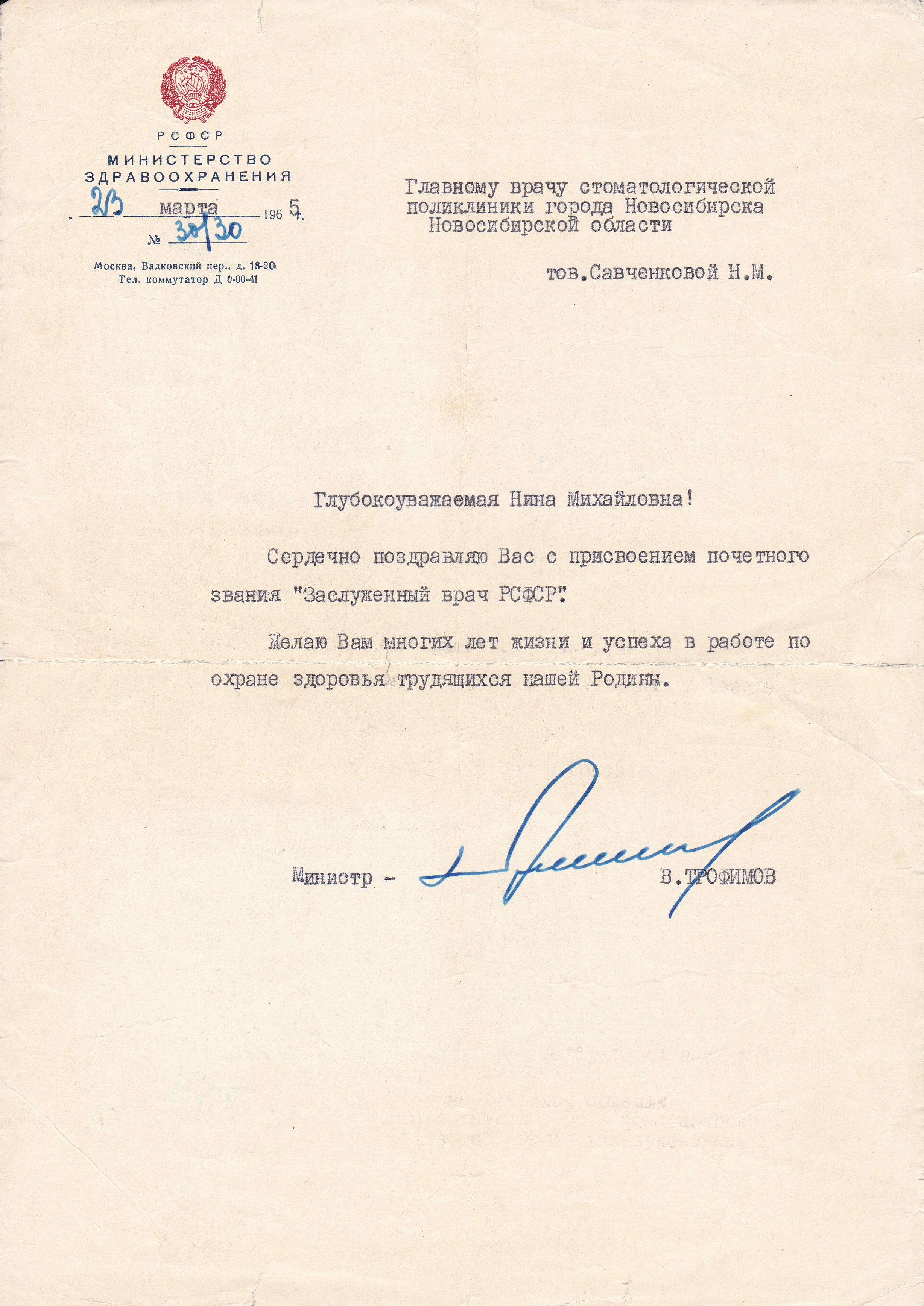 Письмо министра здравоохранения РСФСР Н. М. Савченковой (23.03.1965)